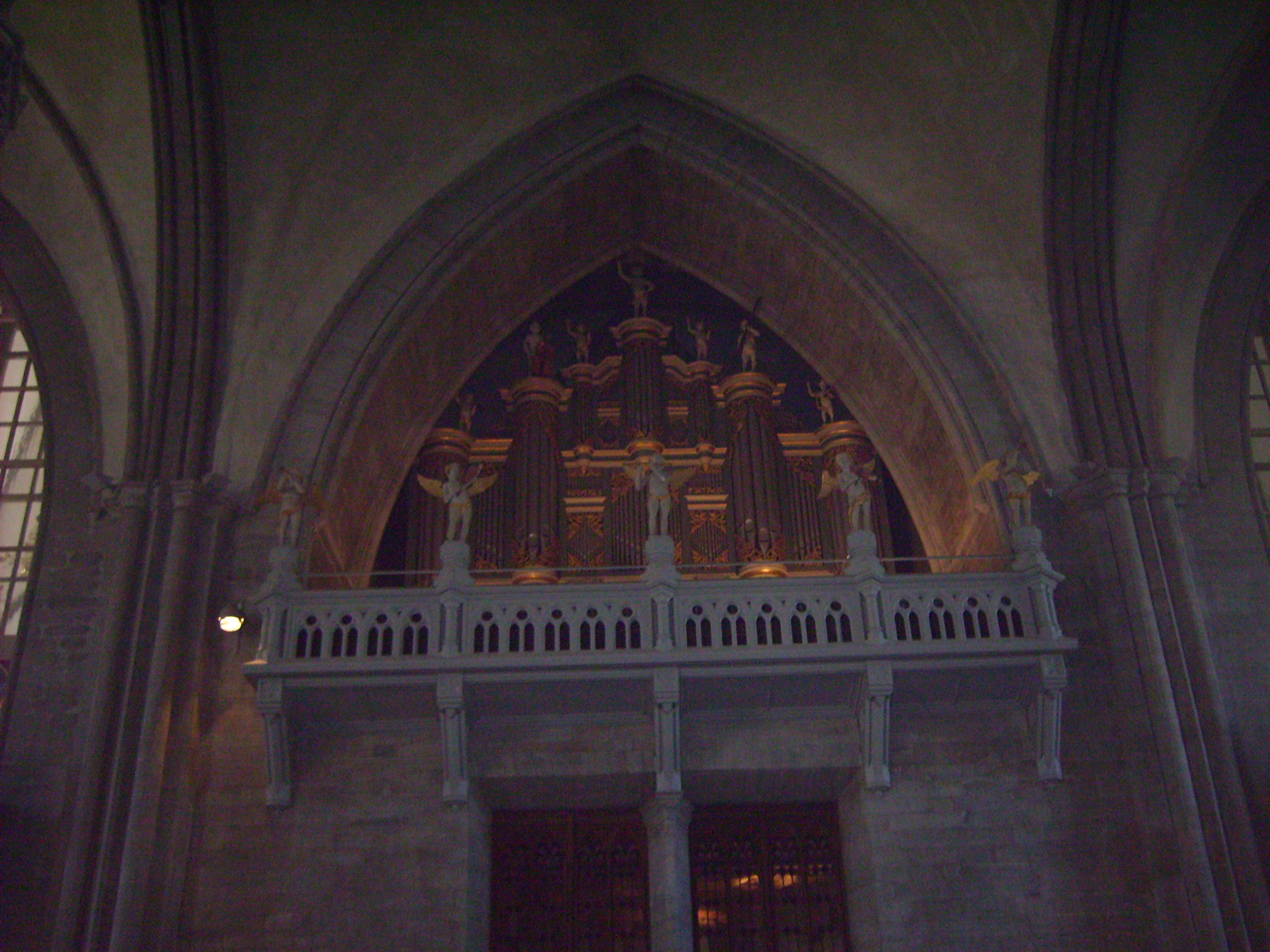 Photo by Harri Blomberg.